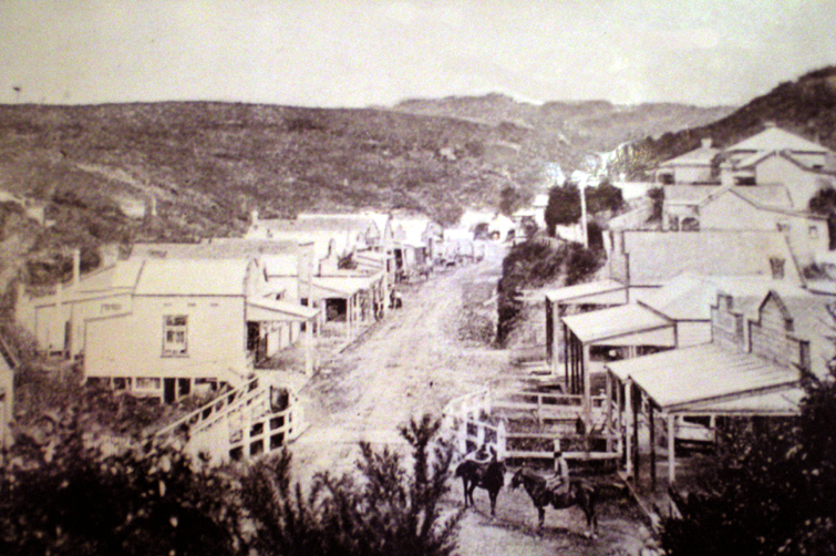 Waikino Village in the 1870's